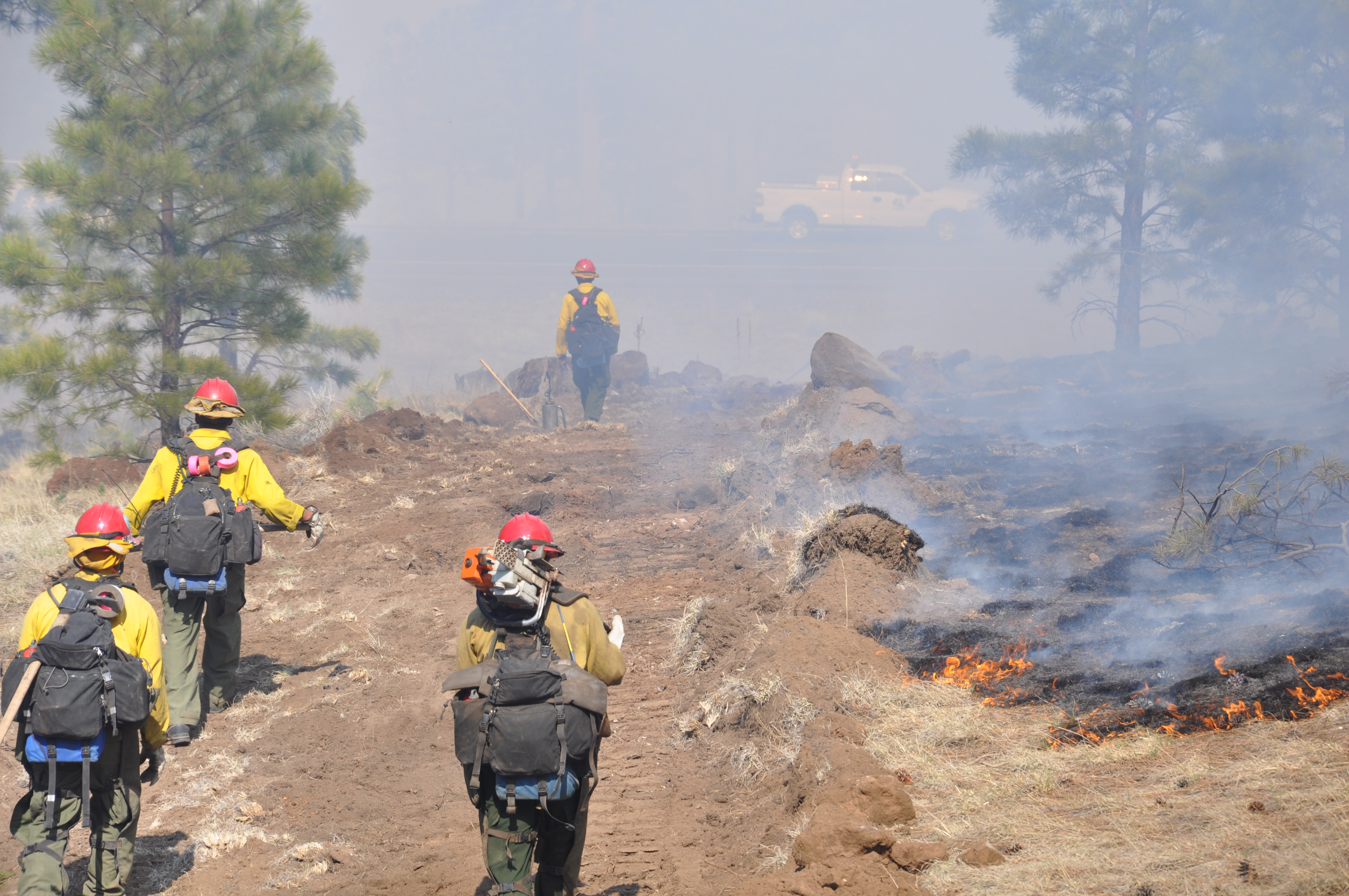 Mormon Lake Hotshots patrol a dozer line on the northern edge of the fire. Photo taken by Brienne Magee. Credit: USDA Forest Service, Coconino National Forest.